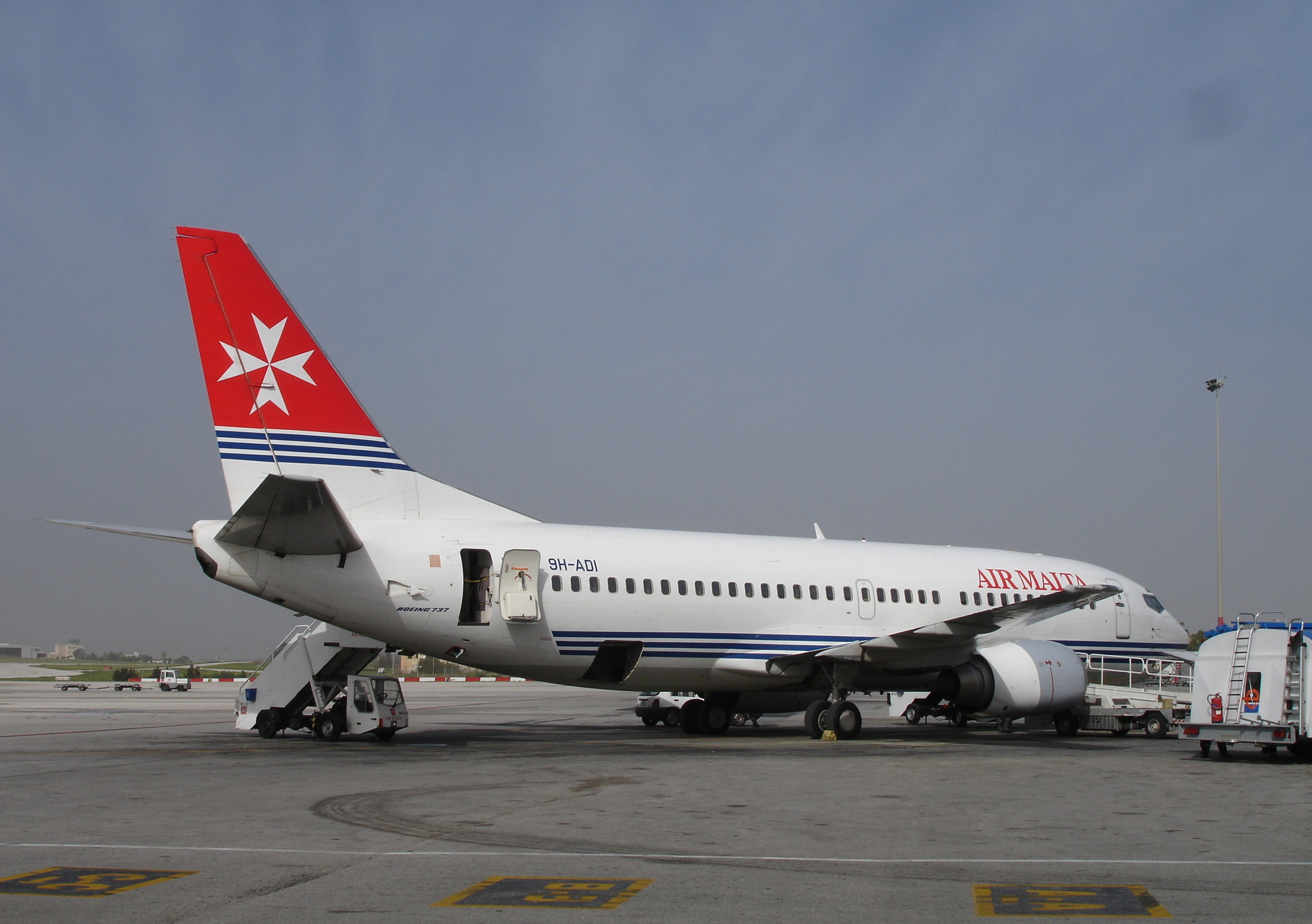 Malta Airlines - Airport Malta; Air Malta; Boeing 737-33A; Registration: 9H-ADI